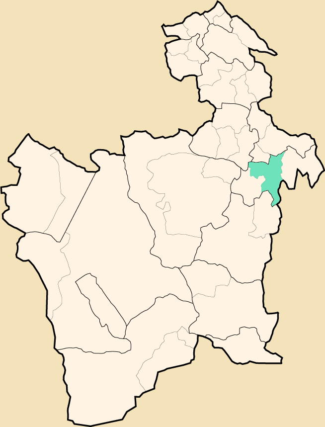 Puna Municipality, Potosí Department